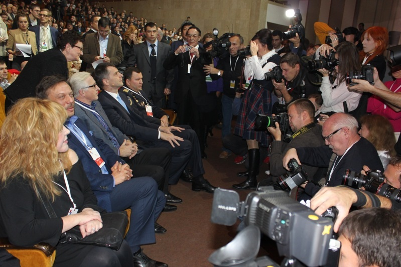 2 Congress of the Party of Civic Platform (Russia). Members of the Central Committee of the party: Alla Pugacheva, Mihail Barshcheuski, Alexander Pochinok, the party leader, Mikhail Prokhorov